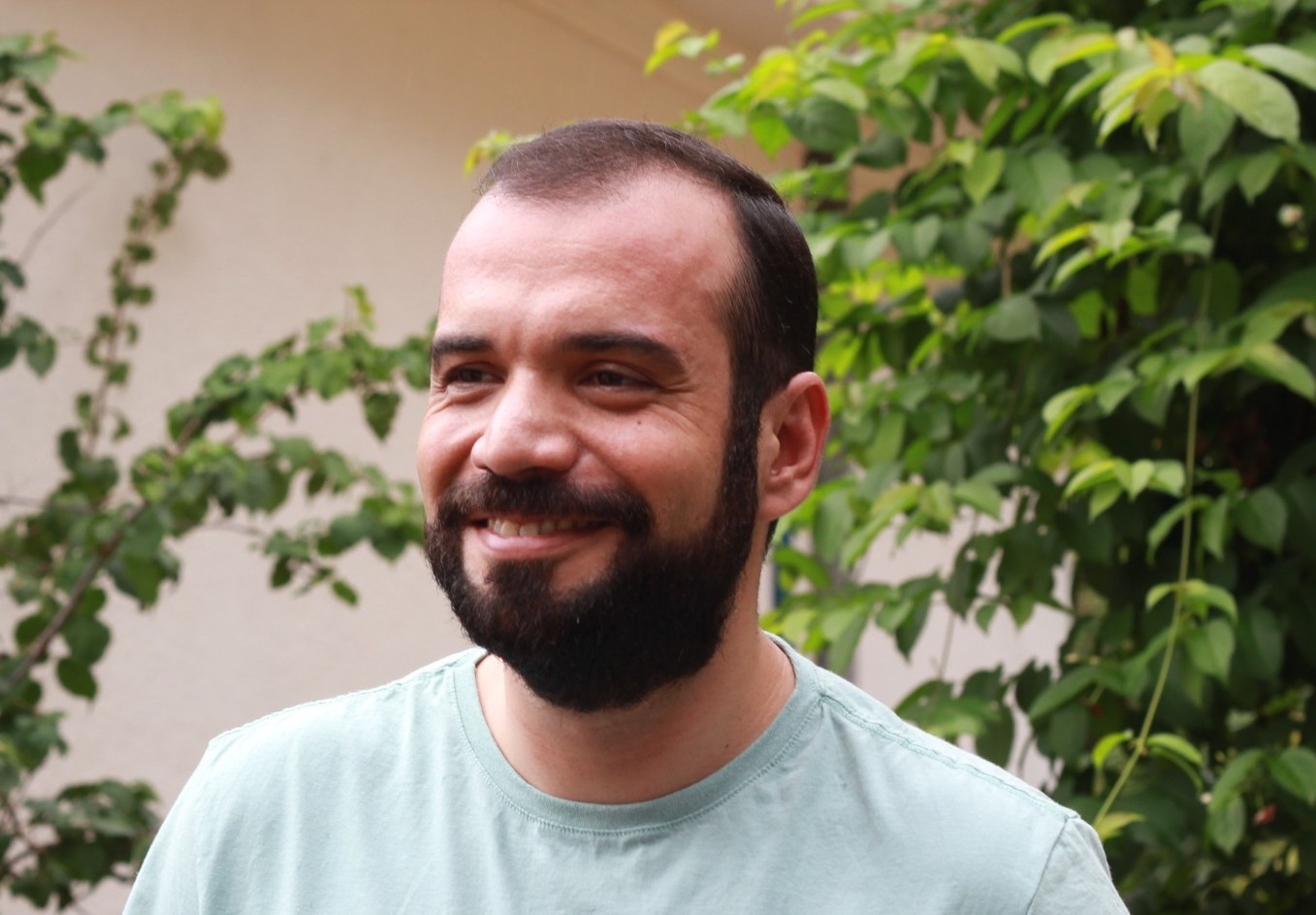 Photo of writer Allan Pitz